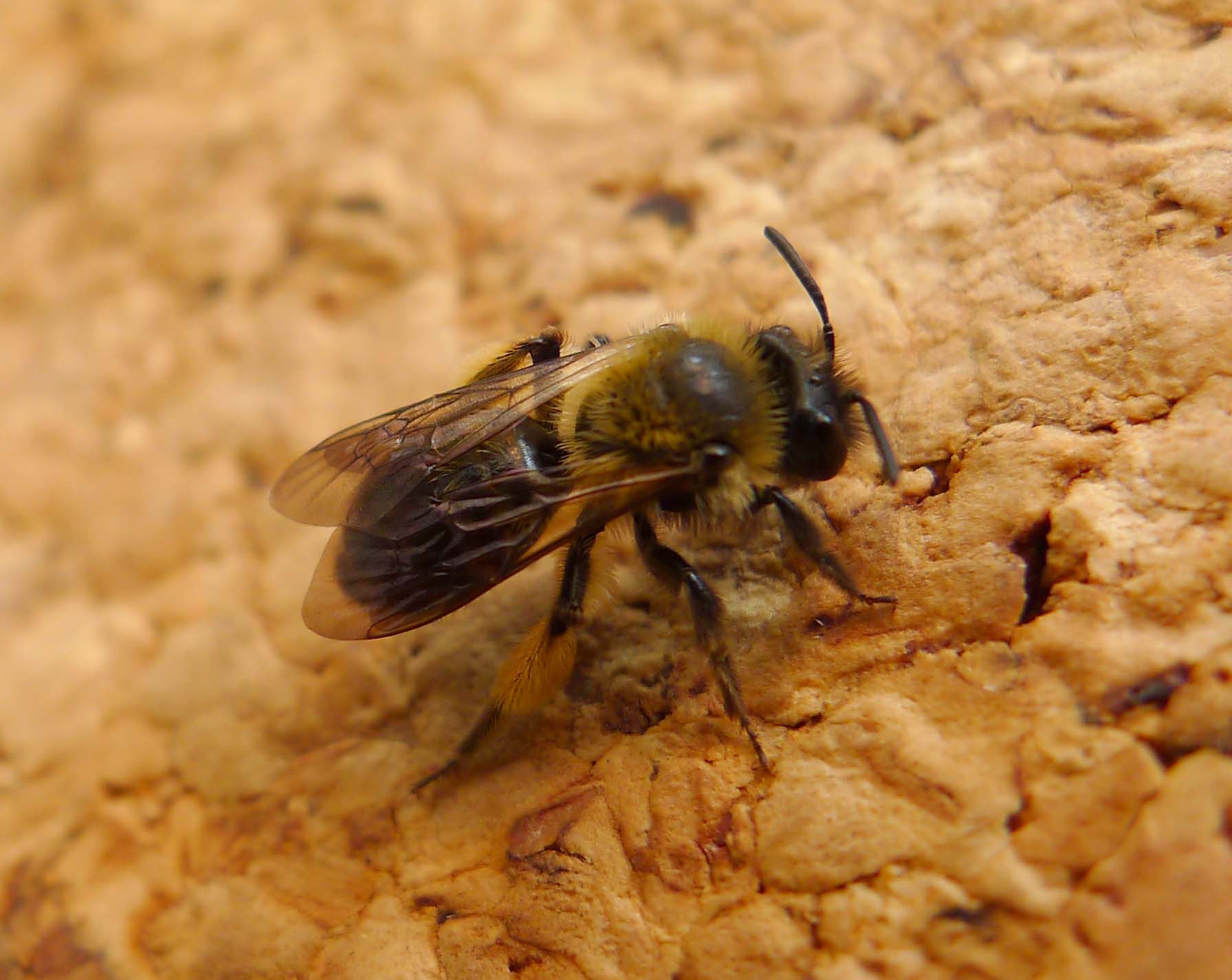 Cradley, Malvern, Worcs. SO7347